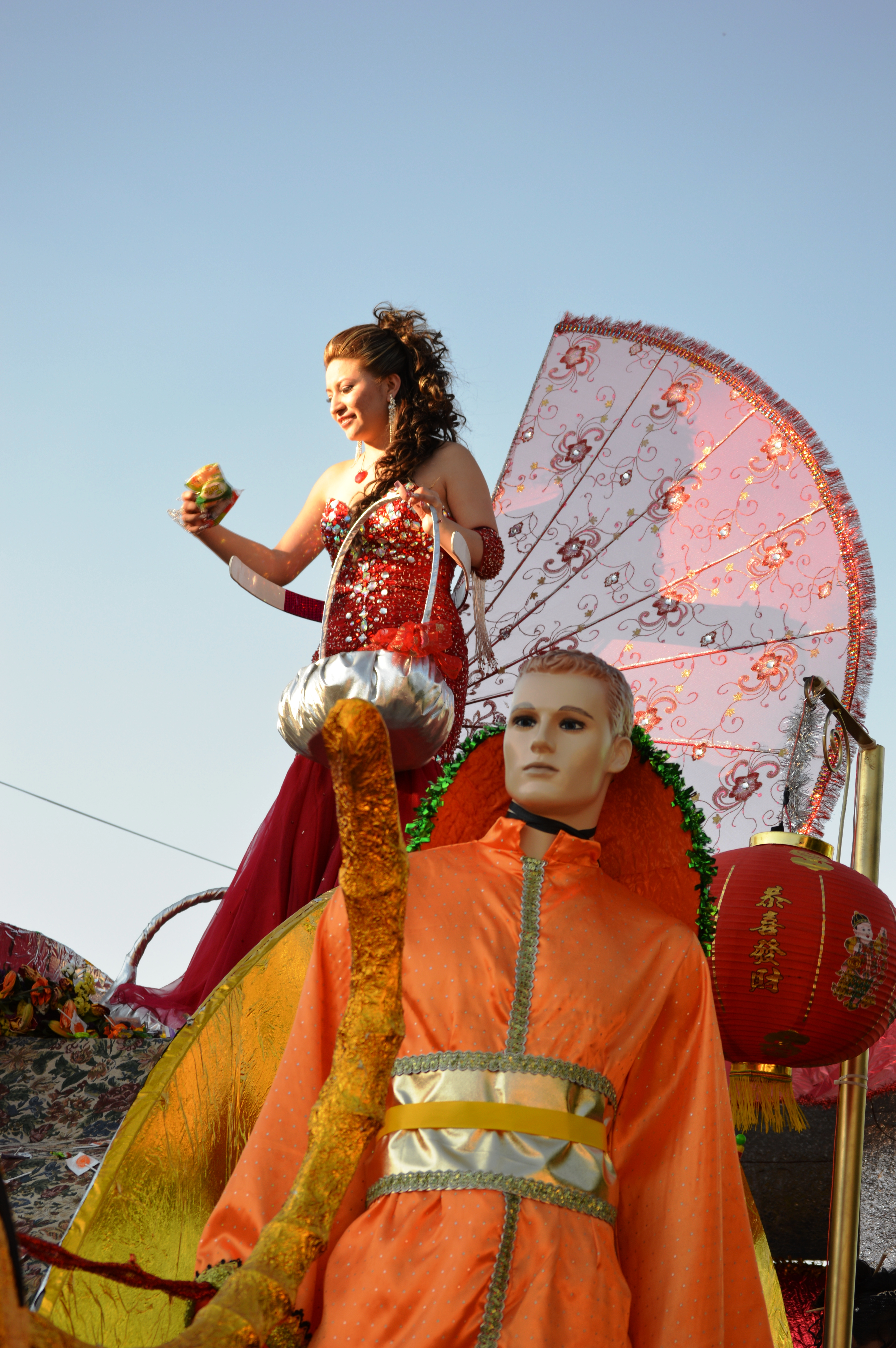 View of a float at the Carnival of Santa Marta Acatitla, Iztapalapa, Mexico City